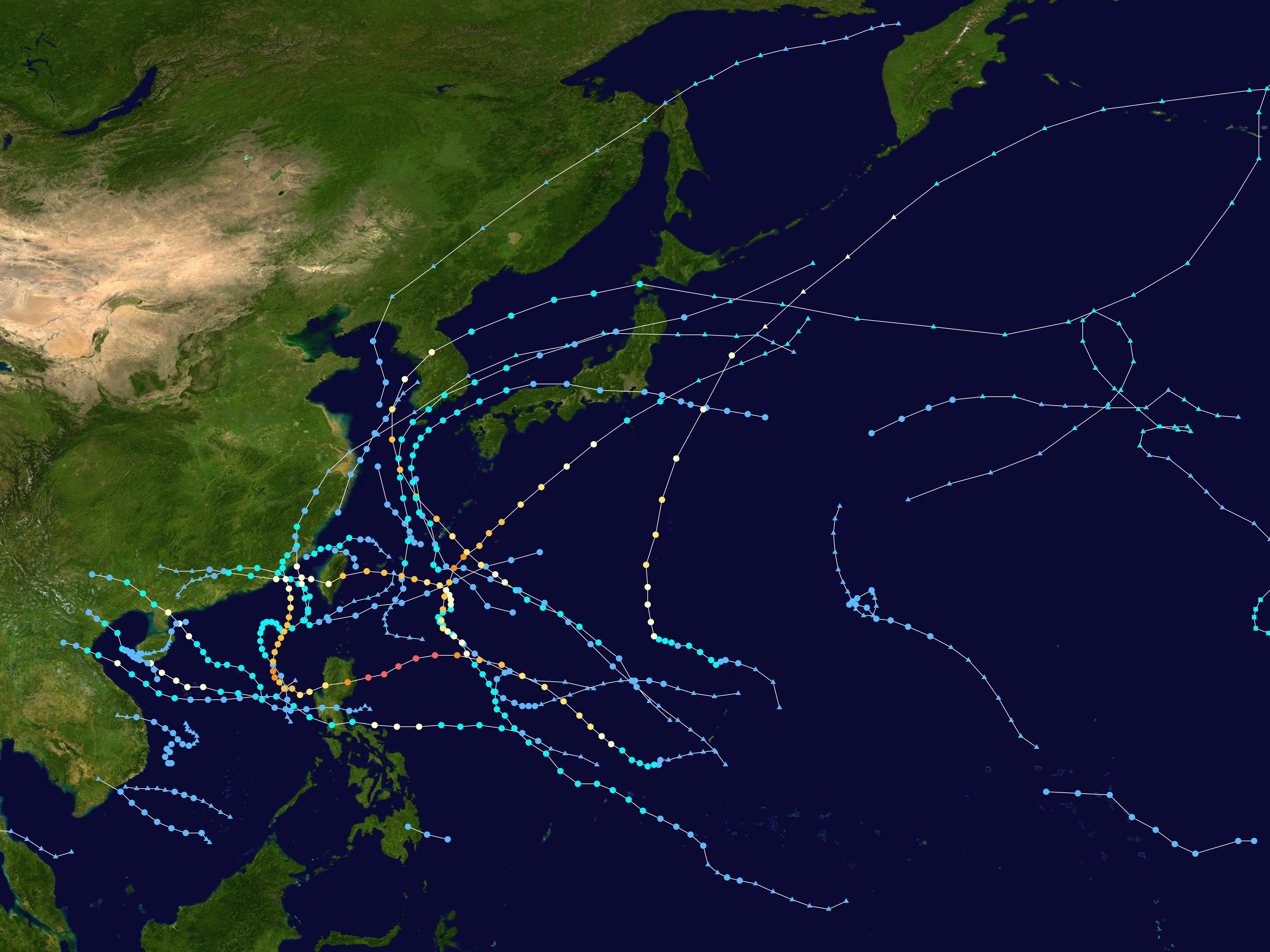 This map shows the tracks of all tropical cyclones in the 2010 Pacific typhoon season. The points show the location of each storm at 6-hour intervals. The colour represents the storm's maximum sustained wind speeds as classified in the Saffir-Simpson Hurricane Scale (see below), and the shape of the data points represent the type of the storm. Saffir–Simpson scale Tropical depression≤38 mph≤62 km/h Category 3111–129 mph178–208 km/h Tropical storm39–73 mph63–118 km/h Category 4130–156 mph209–251 km/h Category 174–95 mph119–153 km/h Category 5≥157 mph≥252 km/h Category 296–110 mph154–177 km/h Unknown Storm type Tropical cyclone Subtropical cyclone Extratropical cyclone / Remnant low / Tropical disturbance / Monsoon depression